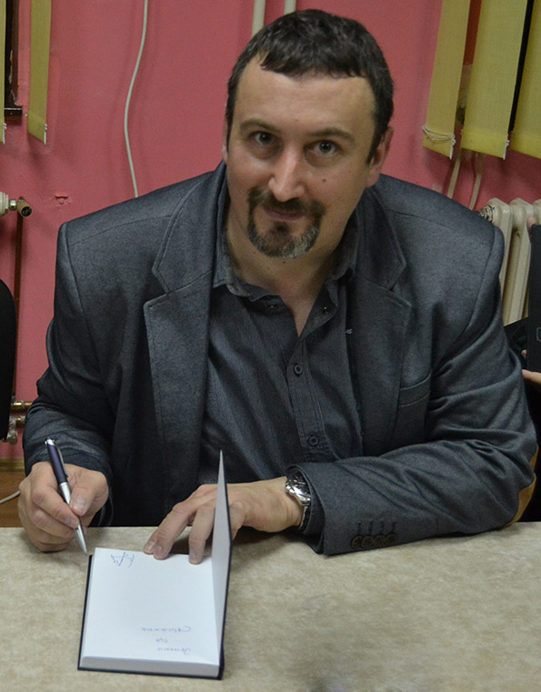 Potpisivanje knjige sa promocije VIZIJA